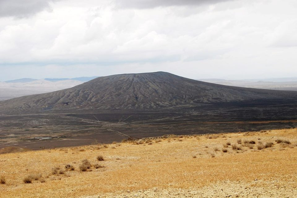 Torağay--The biggest mud volcano in the world Qobustan, Azerbaijan